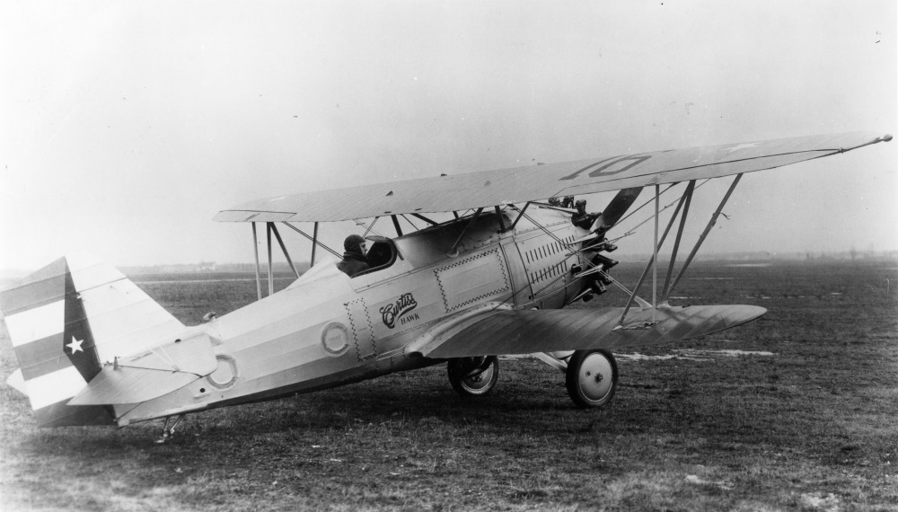 PictionID:41898904 - Title:Ray Wagner Collection Image - Catalog:16_000753 Curtiss P-6S -Cuban Hawk- 1930 - Filename:16_000753 Curtiss P-6S -Cuban Hawk- 1930.tif - - - Ray Wagner was Archivist at the San Diego Air and Space Museum for several years and is an author of several books on aviation --- ---Please Tag these images so that the information can be permanently stored with the digital file.---Repository: San Diego Air and Space Museum